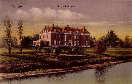 Havezathe Bellinckhof